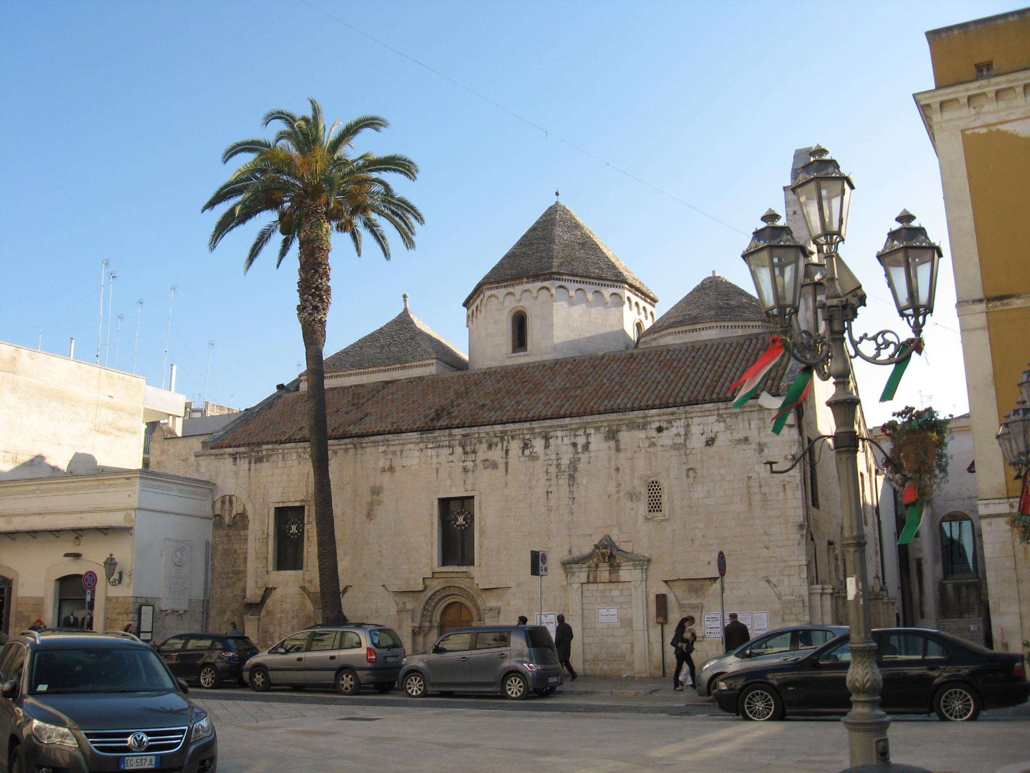 The San Francesco Church in Trani